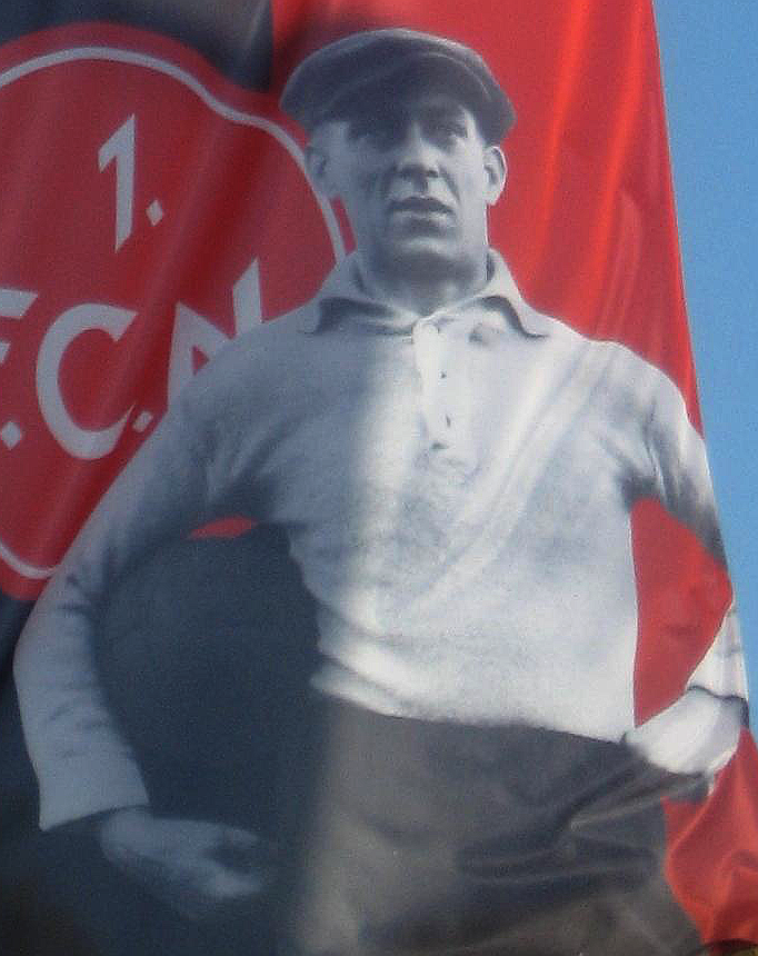 Heinrich Stuhlfauth at the banner dedicated to 1.FC Nurnberg 1927 championship triumph. Near EasyCredit-stadion, Nurnberg, Germany.